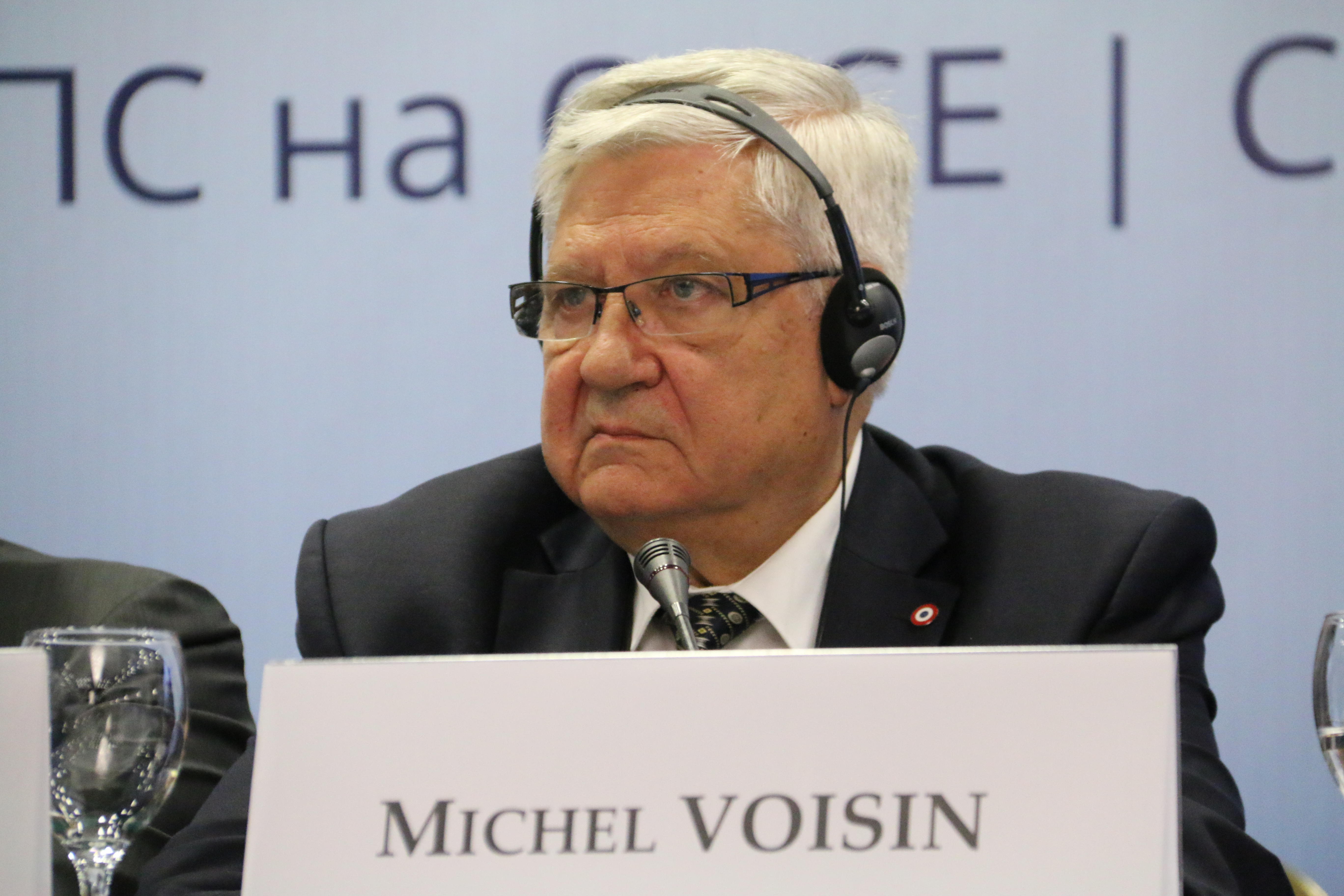 OSCE PA Special Representative on Mediterranean Affairs Michel Voisin (France), Skopje, 30 September 2016